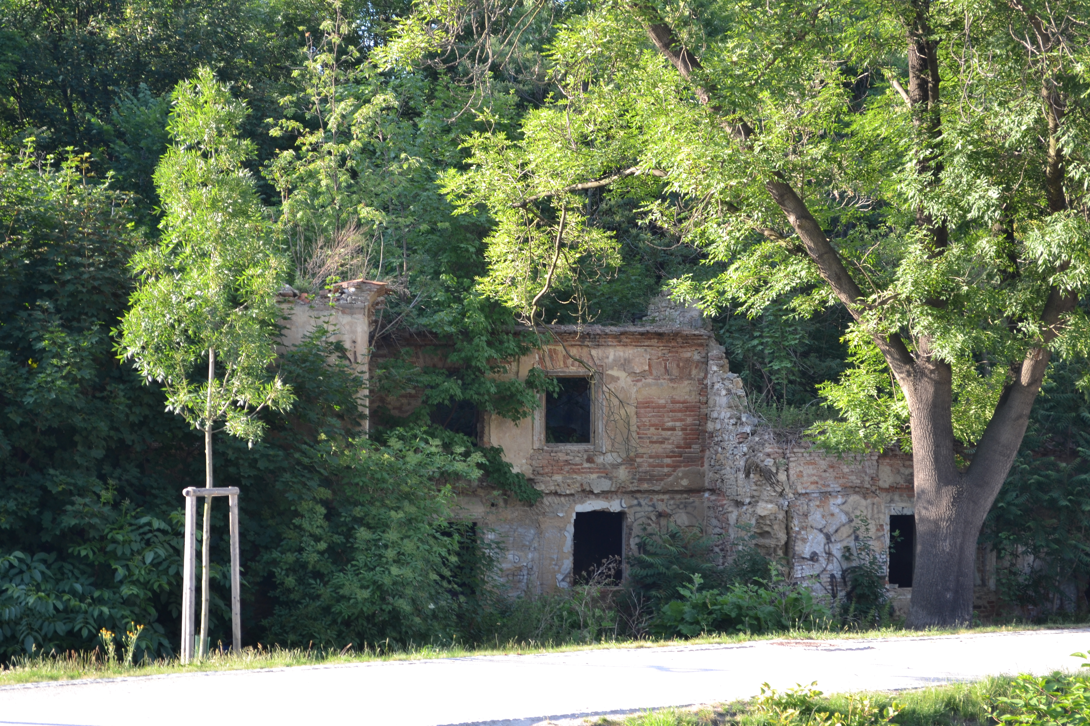 Ruins of the buildings of "Malovanka", Prague, Czech Republic.